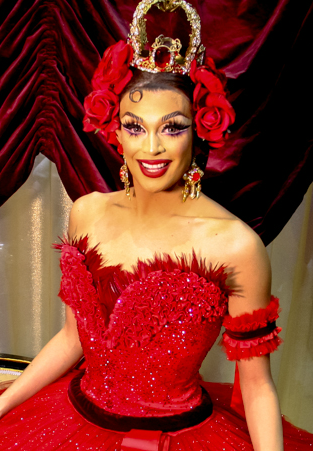 American drag queen Valentina at RuPaul's DragCon.